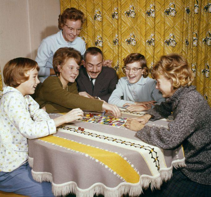 Nationaal Archief/Spaarnestad Photo/W.P. van de Hoef